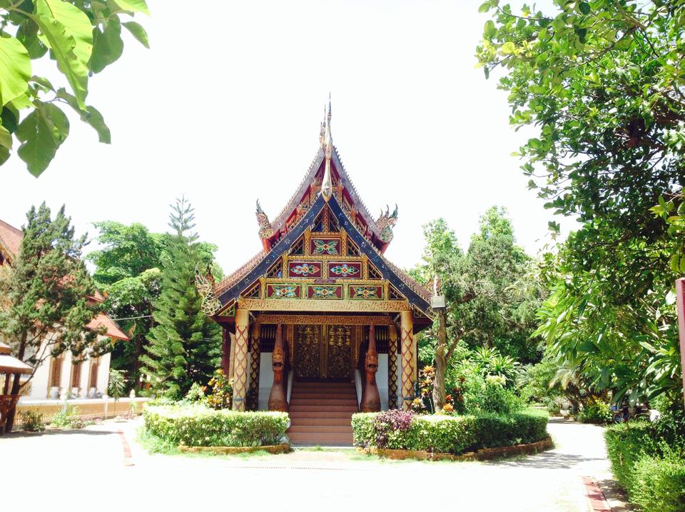 Vihara, Wat Sai Mun, Hang Dong Subdistrict, Hang Dong District, Chiang Mai Province